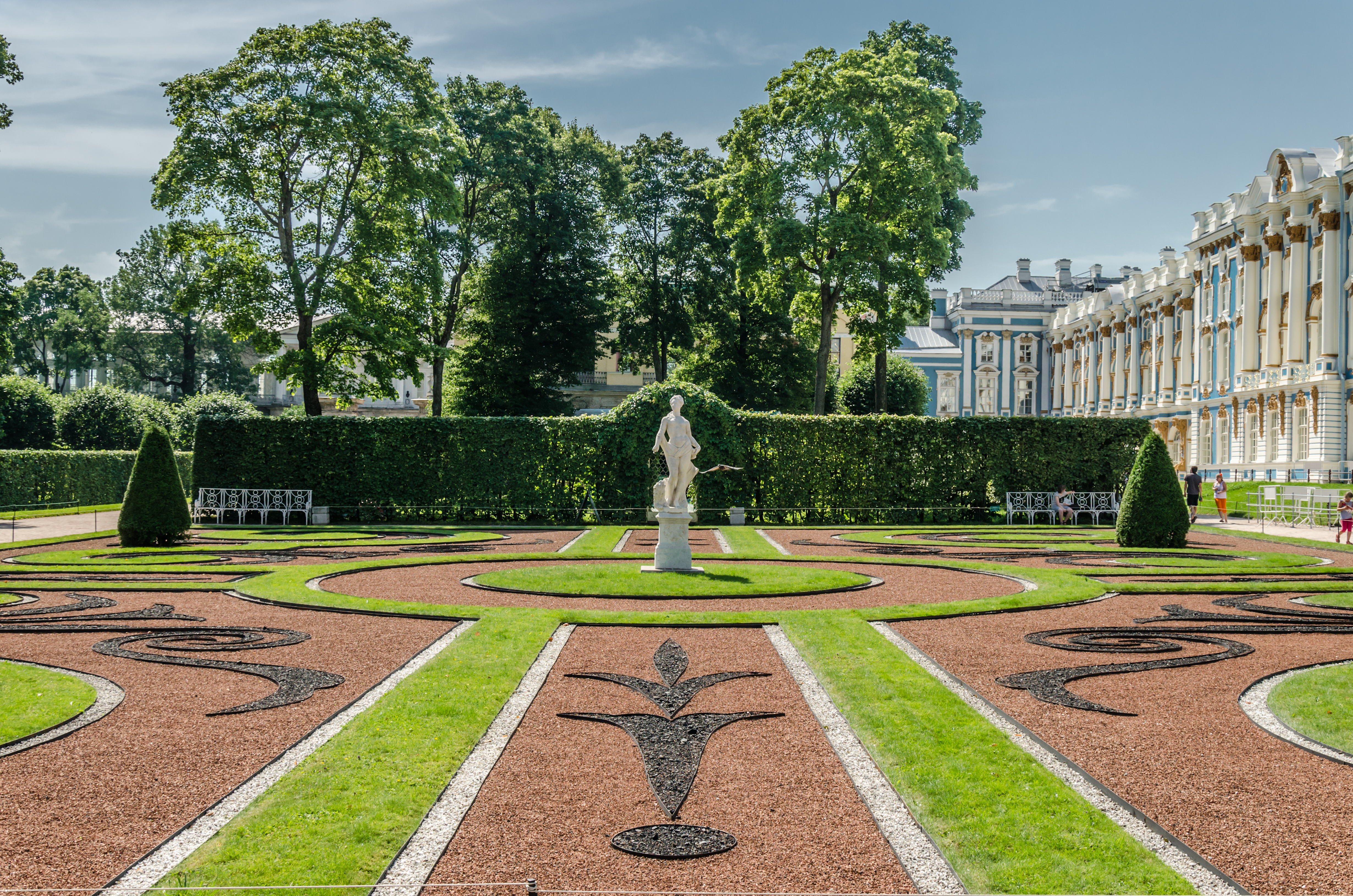 Catherine Park in Tsarskoe Selo, Saint Petersburg